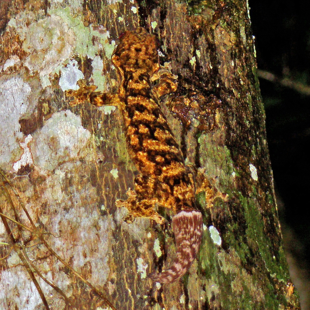 Turnip-tailed Gecko (Thecadactylus rapicauda) photographed at night in the Lalo Loor Dry Forest Reserve (Bosque Seco Lalo Loor, or BSLL) in coastal Ecuador. Jama county, Manabí province.